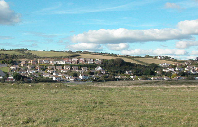 Penally Village. The houses shown in this view taken from the Pembrokeshire Coastal path appear to have been built since the 1940s edition of the OS map.